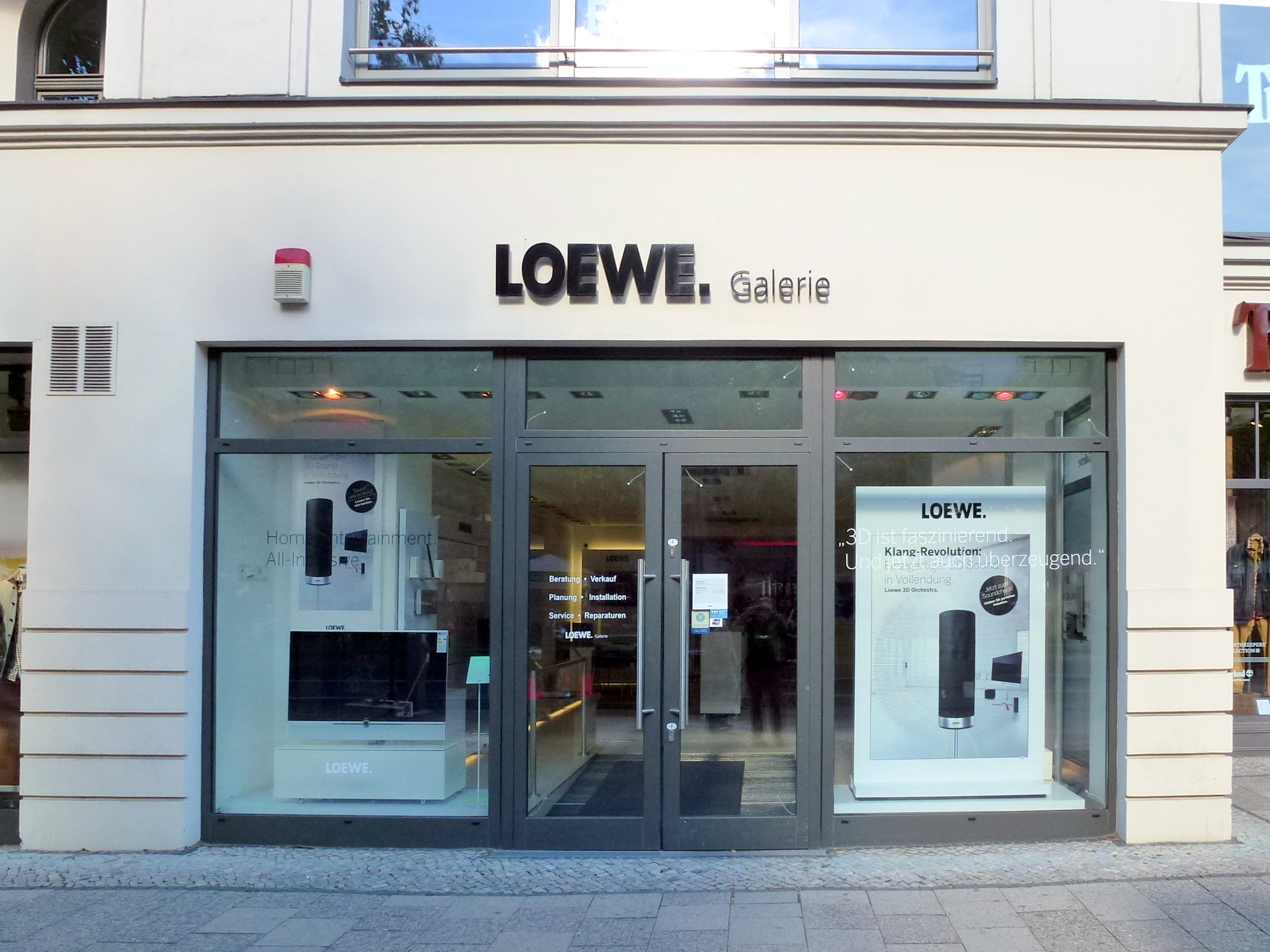 Berlin-Charlottenburg Kurfürstendamm 26a, LOEWE.Galerie Herz